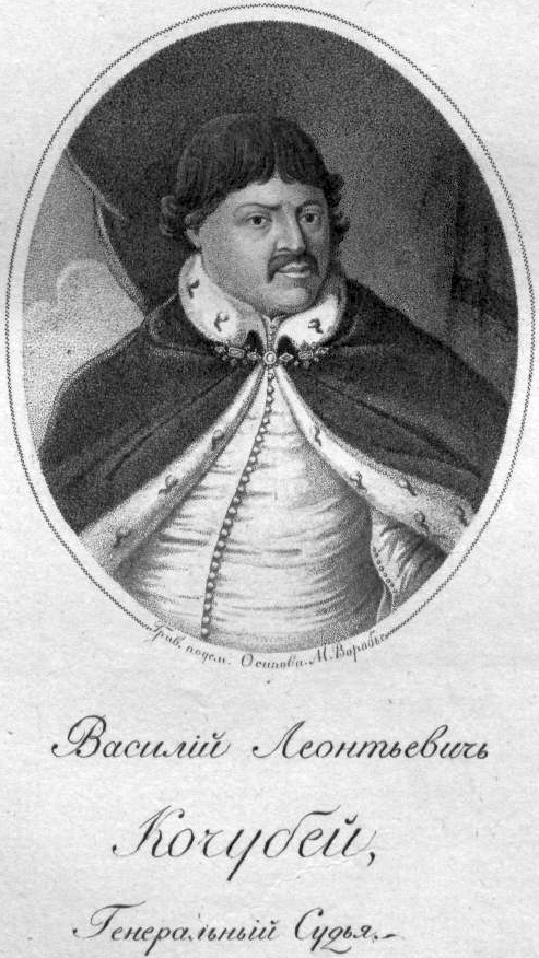 Vasily Kochubey